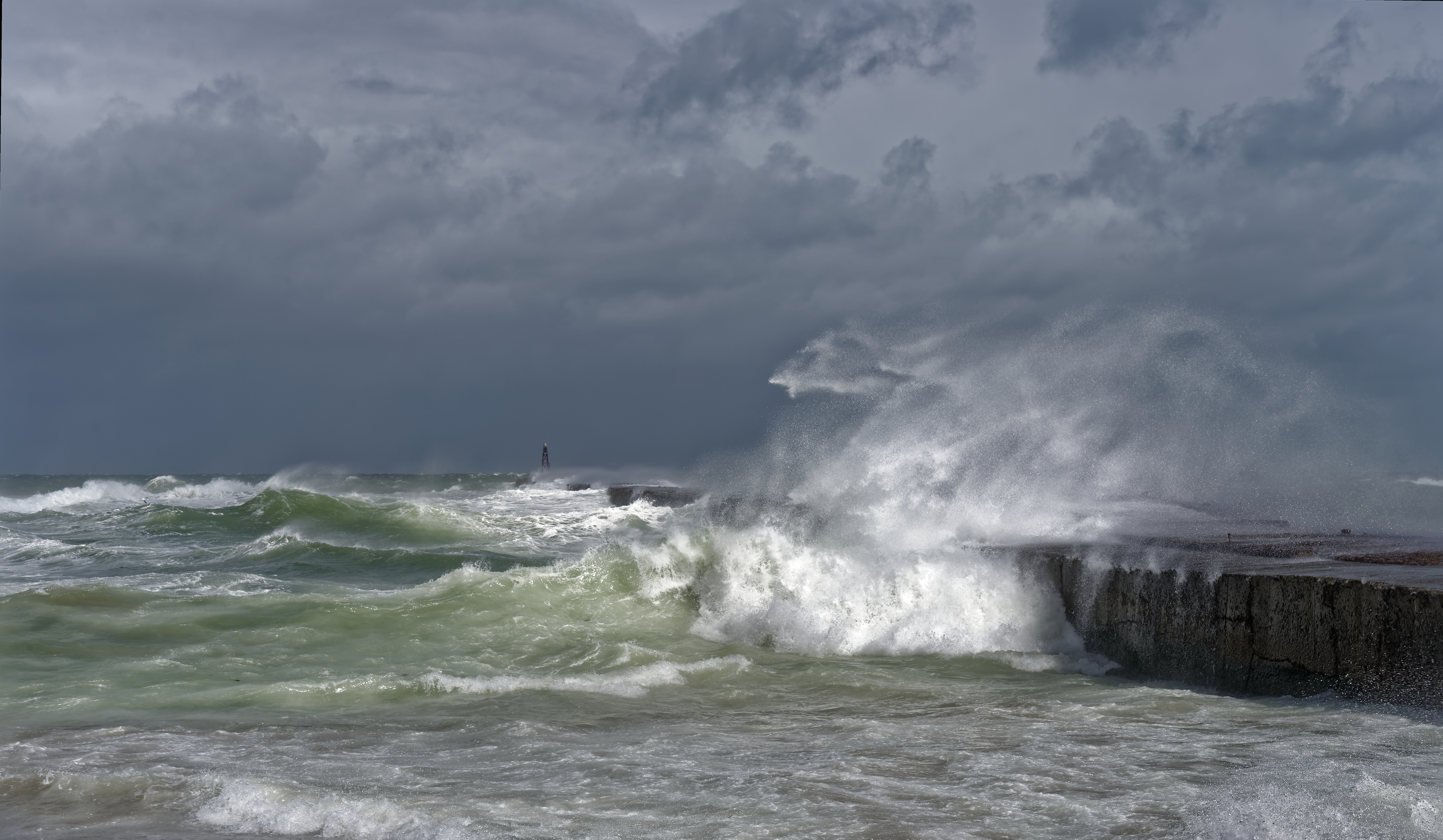 Strong wind and waves at Hanstholm, Thisted municipality, Denmark.